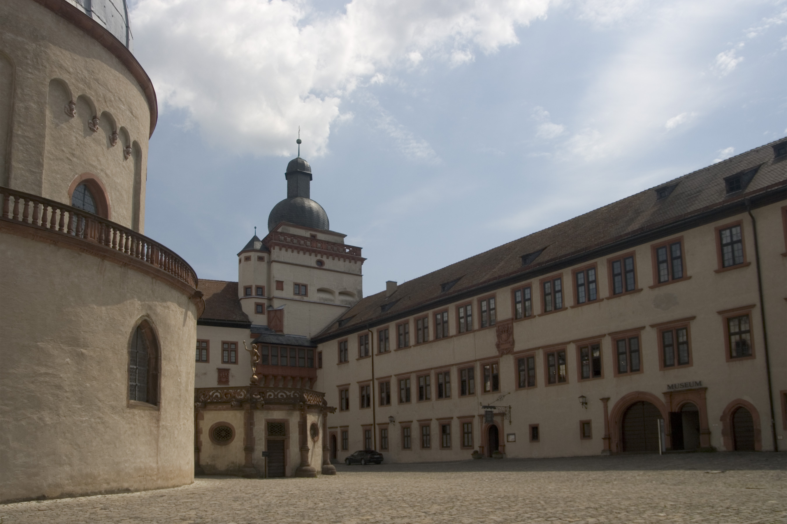 Marienberg Fortress